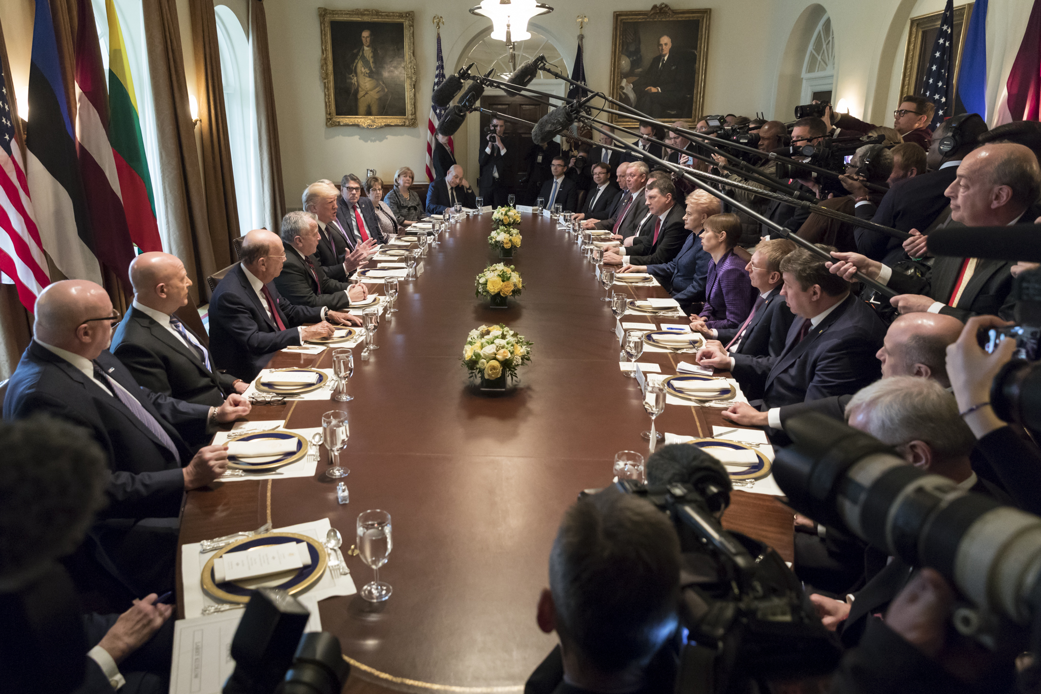 President Donald J. Trump and the Baltic States Heads of Government, April 3, 2018 (Official White House Photo by Joyce N. Boghosian) Participating around the conference table (left to right): Ambassador to Estonia James Melville, National Security Advisor H. R. McMaster, Secretary of Commerce Wilbur Ross, Deputy Secretary of State John Sullivan, President Donald Trump, Secretary of Defense James Mattis (face obscured), Secretary of Energy Rick Perry, Ambassador to Latvia Nancy Pettit, Ambassador to Lithuania Anne Hall, White House Chief of Staff John Kelly, Estonian foreign minister Sven Mikser, Lithuanian ambassador Rolandas Kriščiūnas, Latvian defense minister Raimonds Bergmanis, Estonian ambassador Lauri Lepik, Lithuanian foreign minister Linas Linkevičius (face obscured), Latvian president Raimonds Vējonis, Lithuanian president Dalia Grybauskaitė, Estonian president Kersti Kaljulaid, Latvian foreign minister Edgars Rinkēvičs, Lithuanian defense minister Raimundas Karoblis, Estonian defense minister Jüri Luik and Latvian ambassador Andris Teikmanis (face obscured).